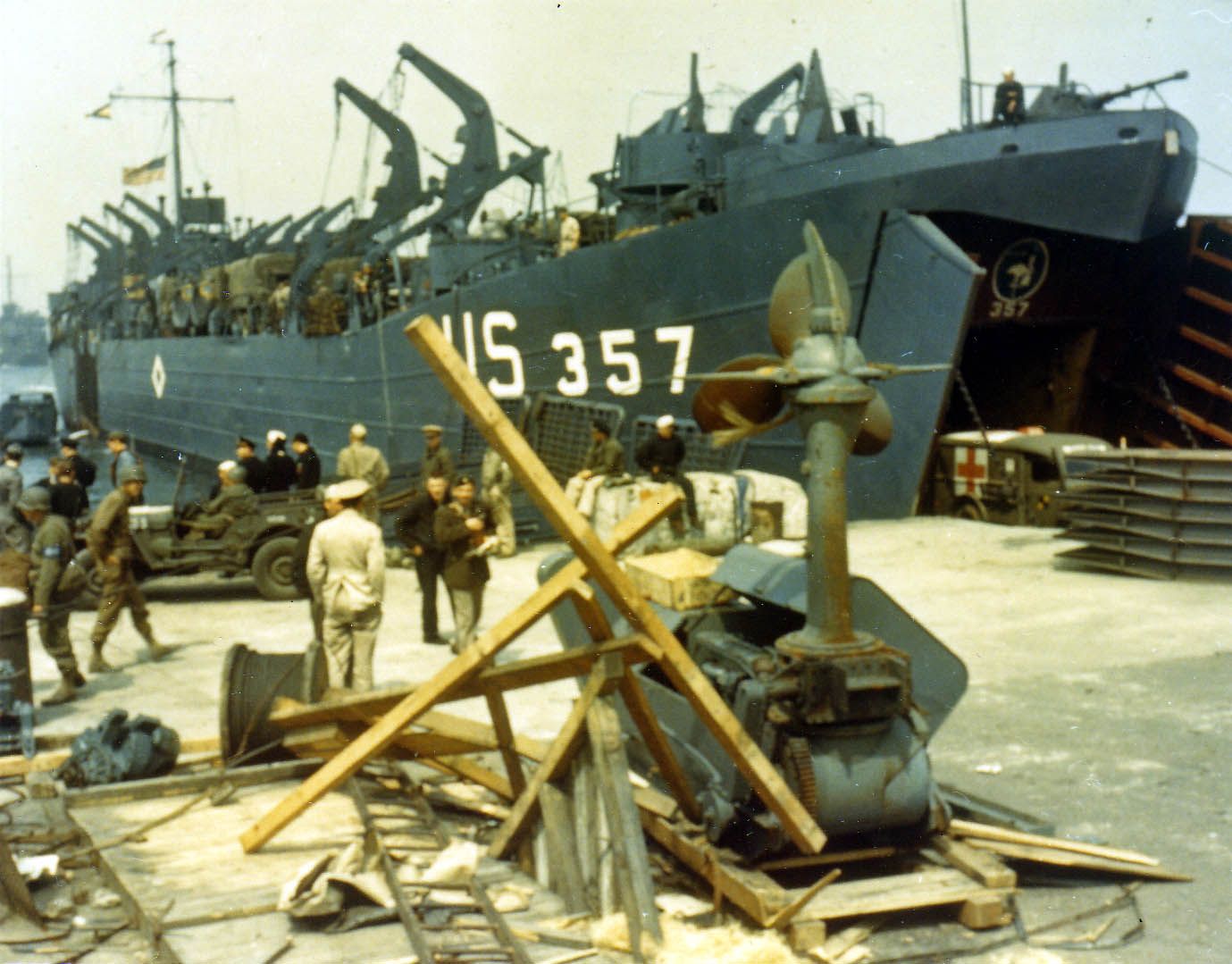 USS LST-357 being prepared to land on Omaha Beach. An ambulance being backed into the mouth of an LST, in preparation for the Normandy landings.